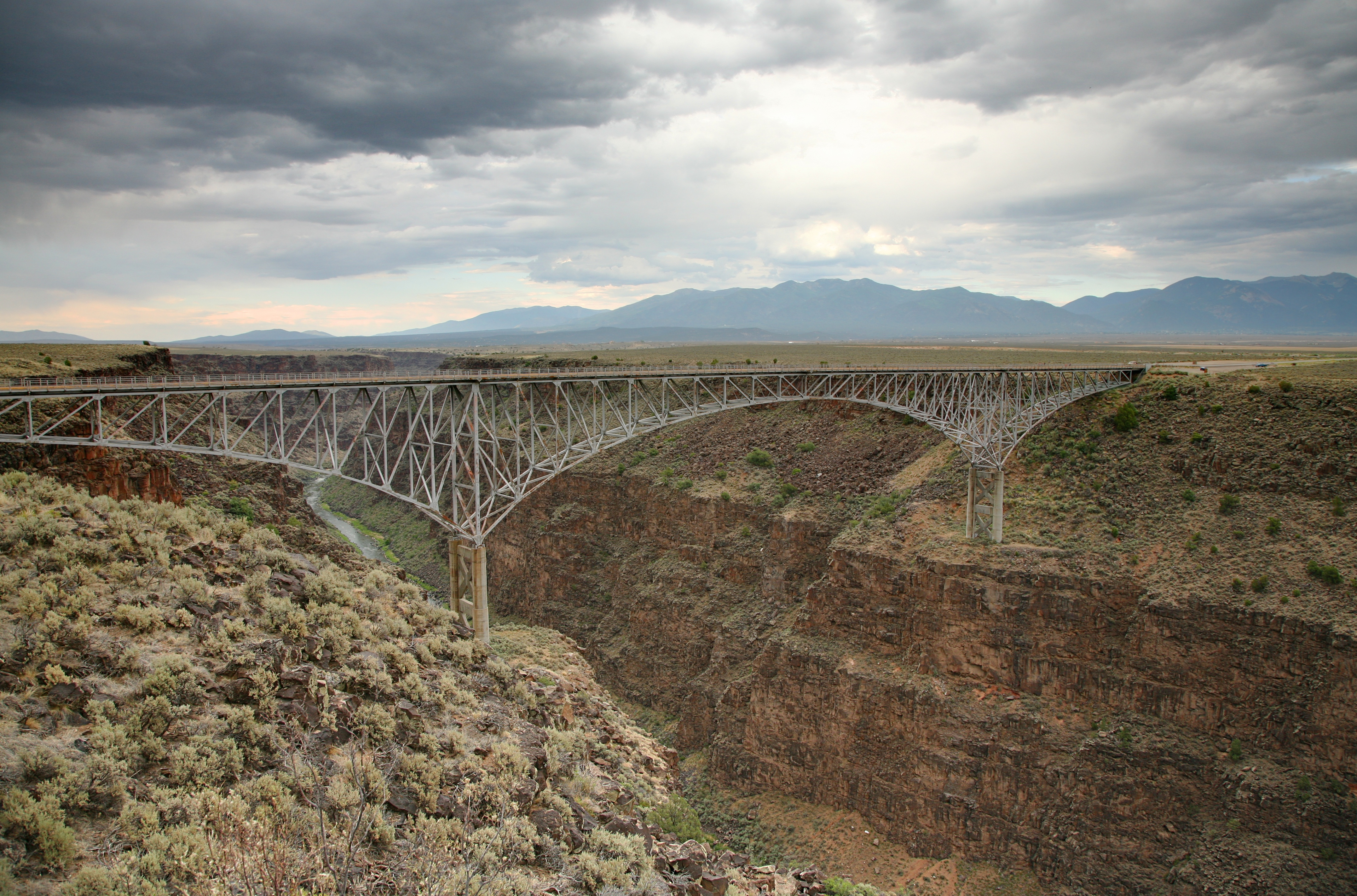 U.S. Route 64 Rio Grande Gorge Bridge near Taos, New Mexico.